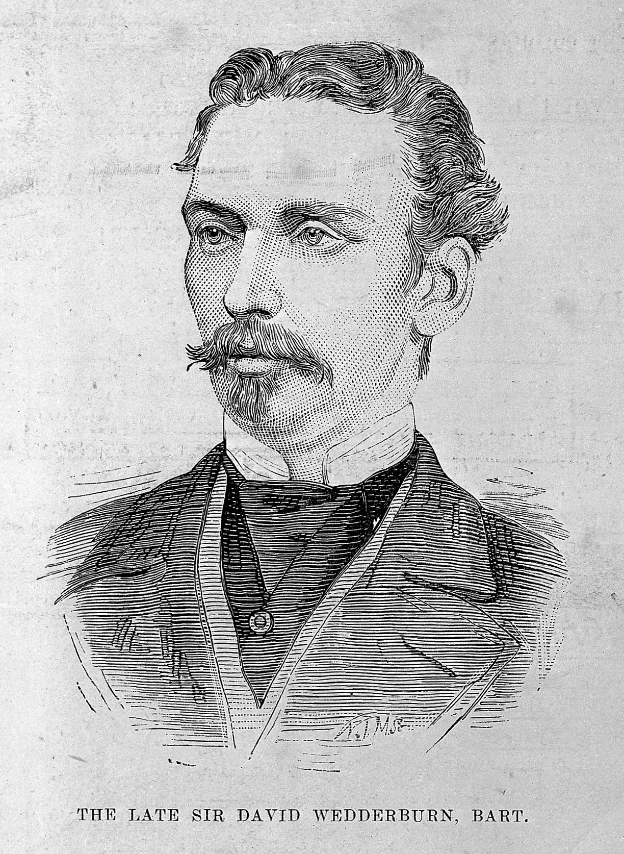 Portrait of David Wedderburn General Collections Keywords: David Wedderburn